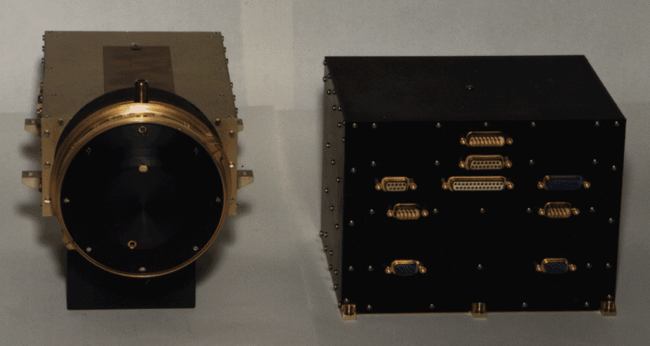 Unlike the other instruments, the magnetometer sensors are not attached to the main body of the spacecraft. Instead, each one of the two sensors sits at opposite ends of the spacecraft. This placement ensures that the data generated from the magnetometer sensors will not be "polluted" by magnetic signals from the spacecraft system. [Please Note: This information was originally describing the Mars Global Surveyor instrument. However, due to the complications with Mars Observer, the same instrument was used in the later spacecraft.]